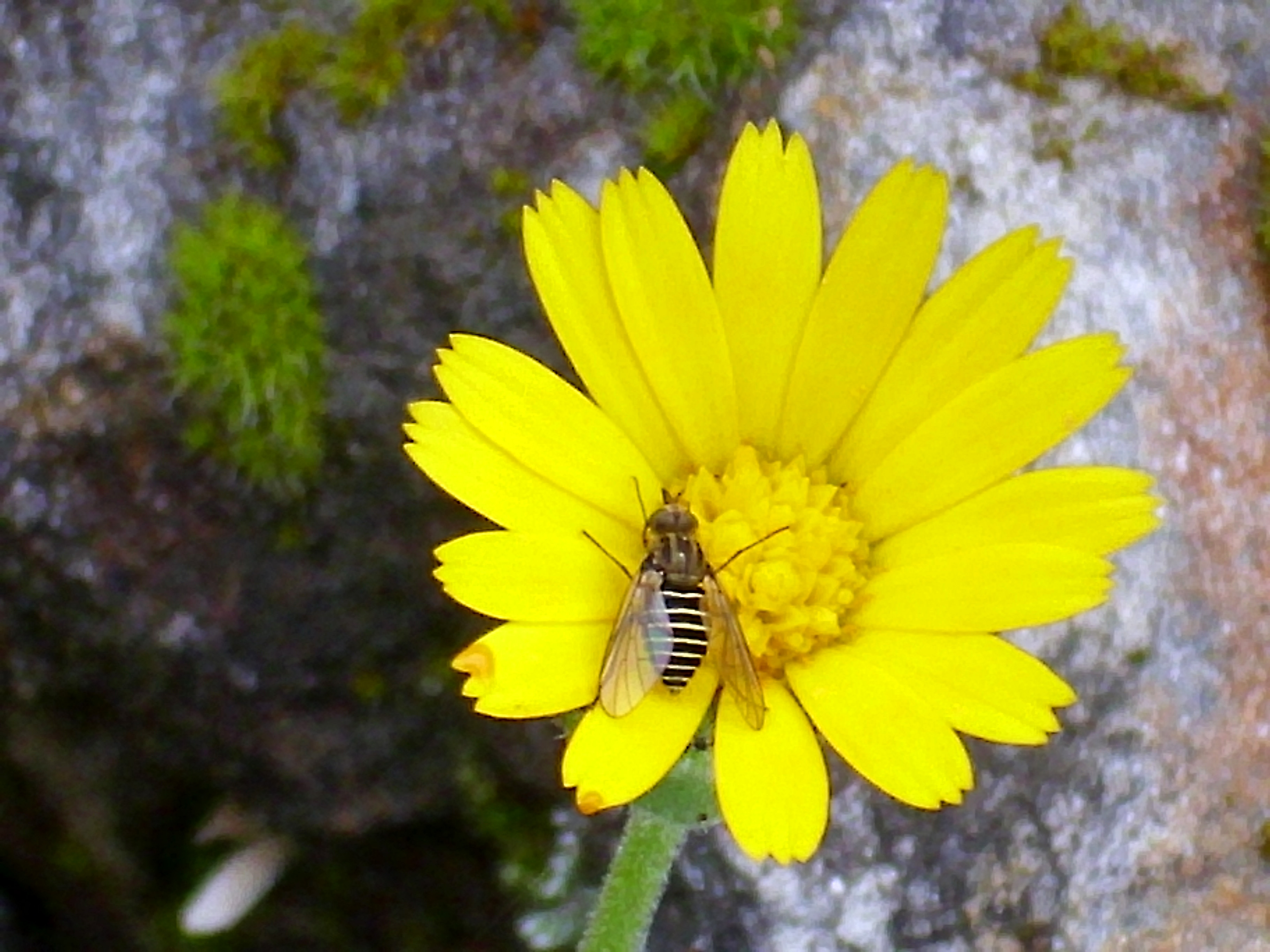 Calendula arvensis flowers close up, Sierra Madrona, Spain